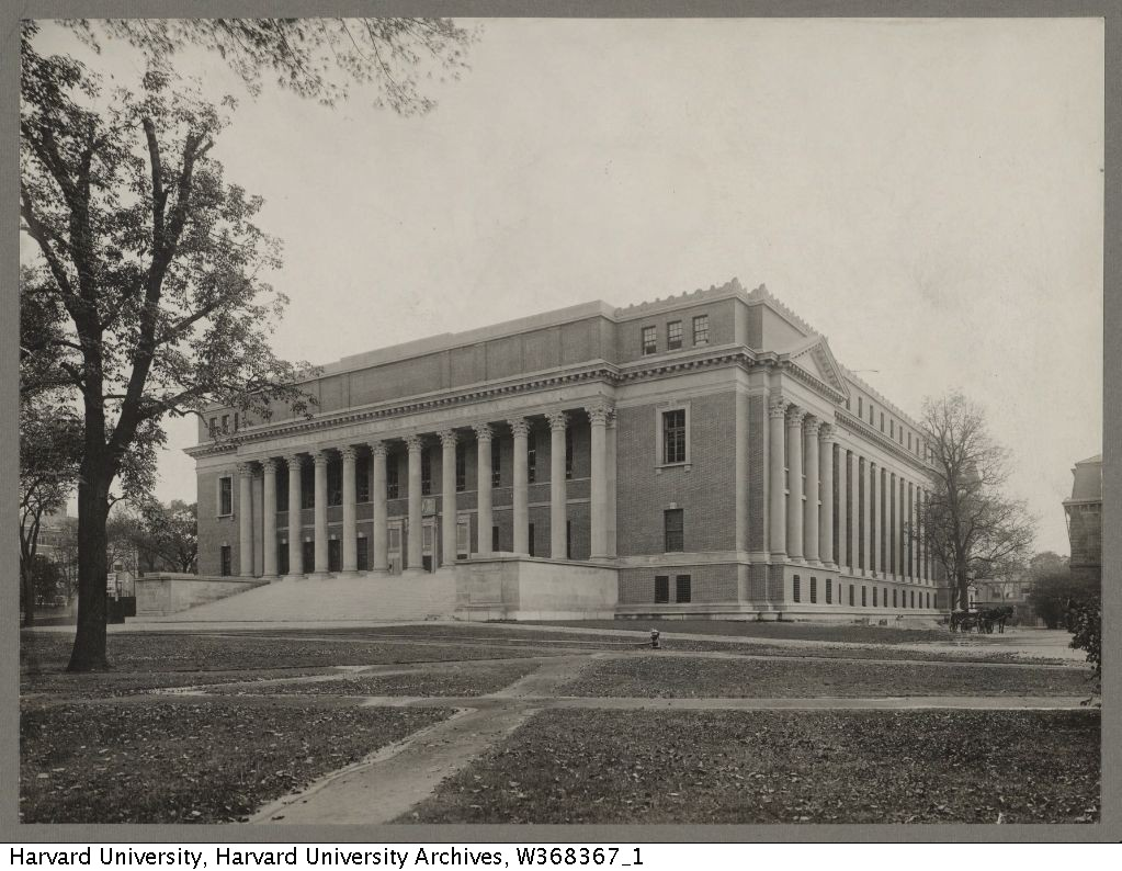 Exterior (front, from northwest), c. 1914, Harry Elkins Widener Memorial Library, Harvard University . Note horsecart at right.